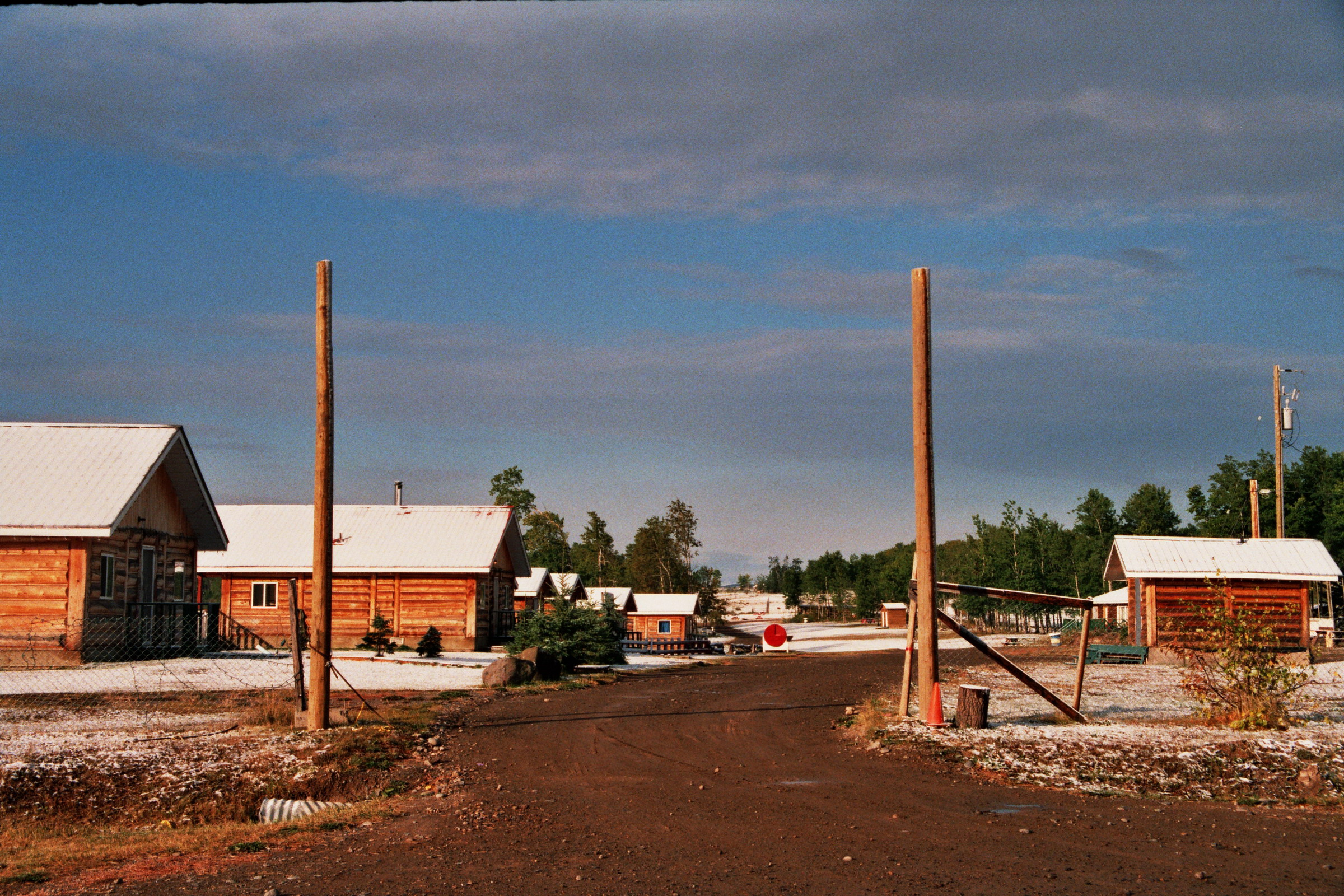 Cabins on Saik'uz First Nation, along Nulki Lake